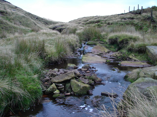 Laneshaw Brook Runs across Emmott Moor to Laneshaw Reservoir.